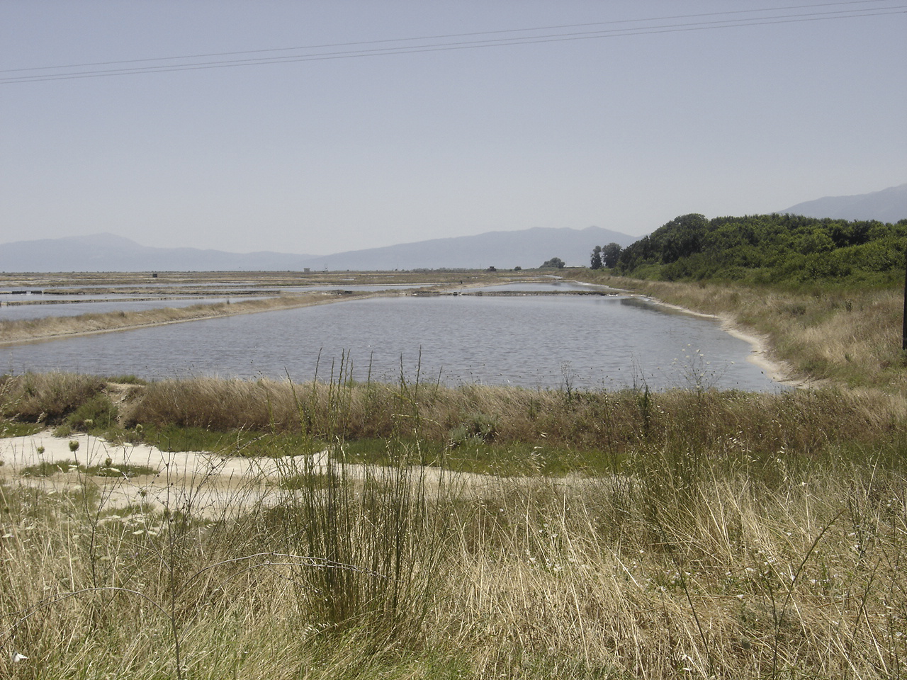 The Alykes of Kitros.